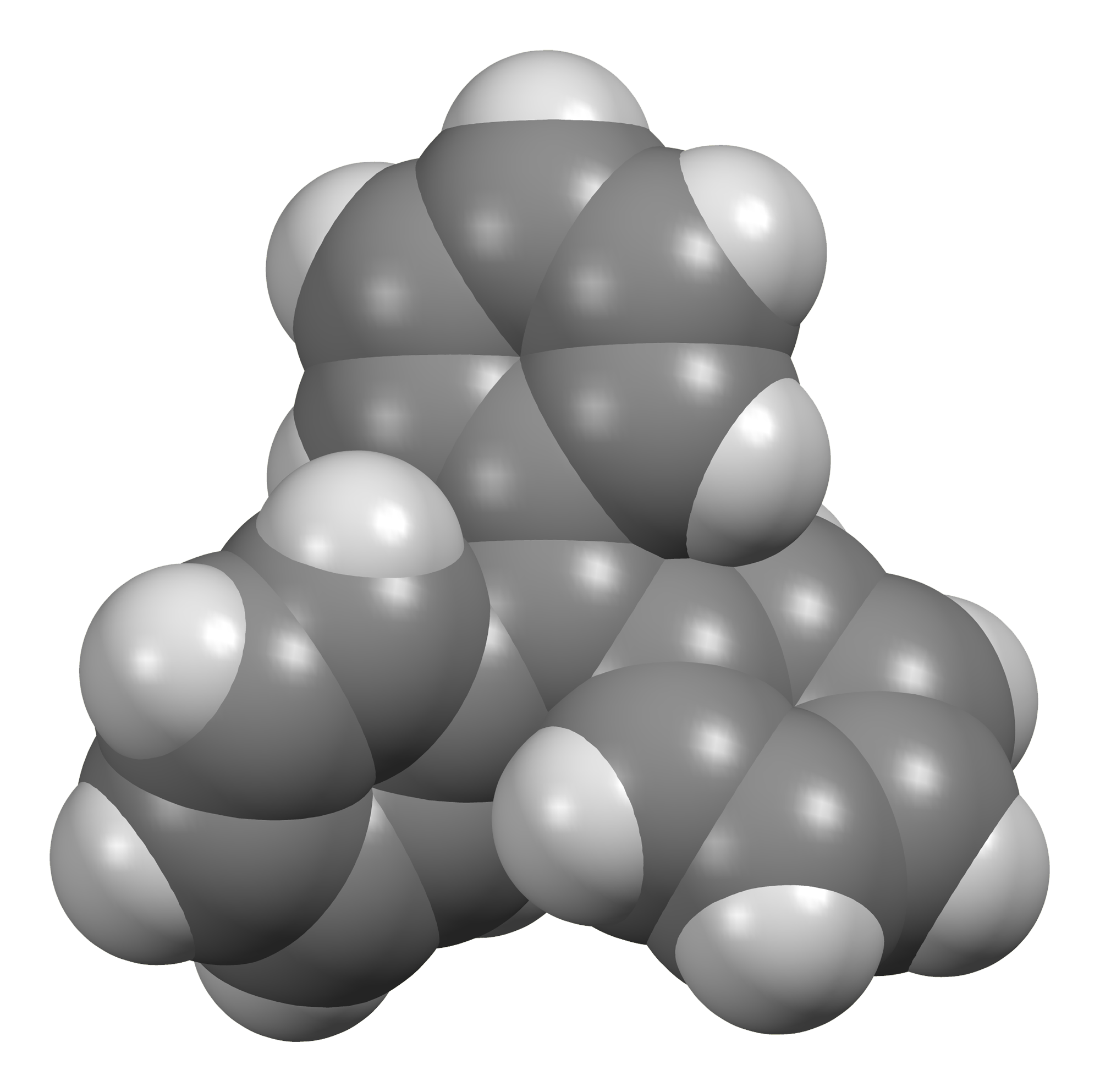 Space-filling model of a triphenylmethyl cation, Ph3C+, from the crystal structure of triphenylmethyl hexafluorophosphate, C19H15F6P. Structure reported in Struct. Chem. (2015) 26, 1641-1650 (CSD Entry: YUVZAS). Colour code: Carbon, C: grey Hydrogen, H: white Model manipulated and image generated in CCDC Mercury 3.8.